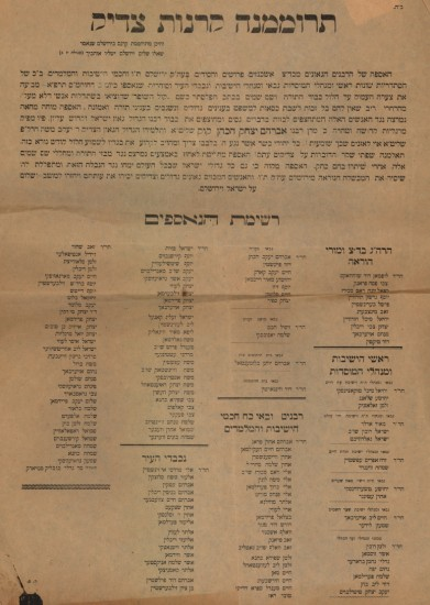 Rabbinic Proclamation In Support of Rav Kook